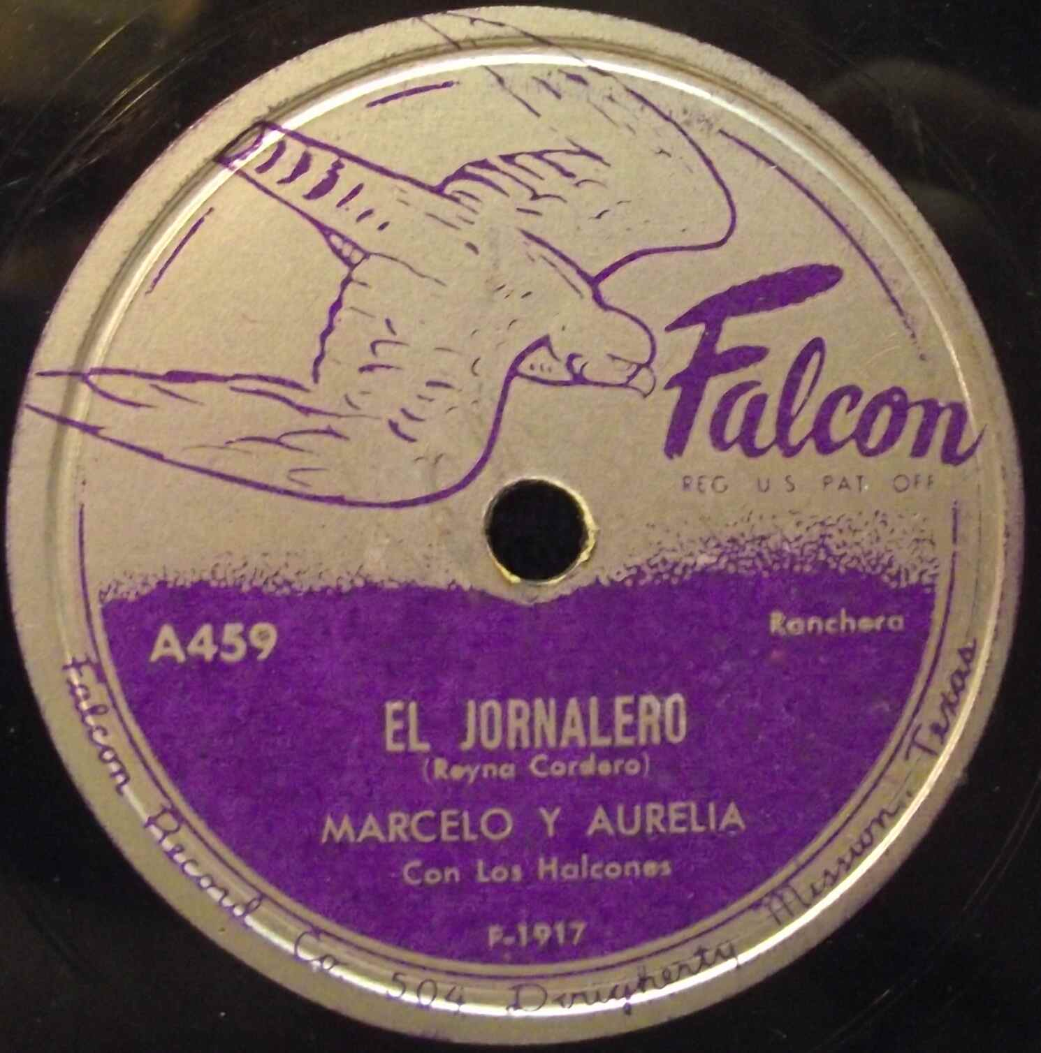 Falcon 78rpm record label, from phonograph record in my collection. Disc A459, "El Jornalero" by Marcelo y Aurelia. Date is approximately 1955.